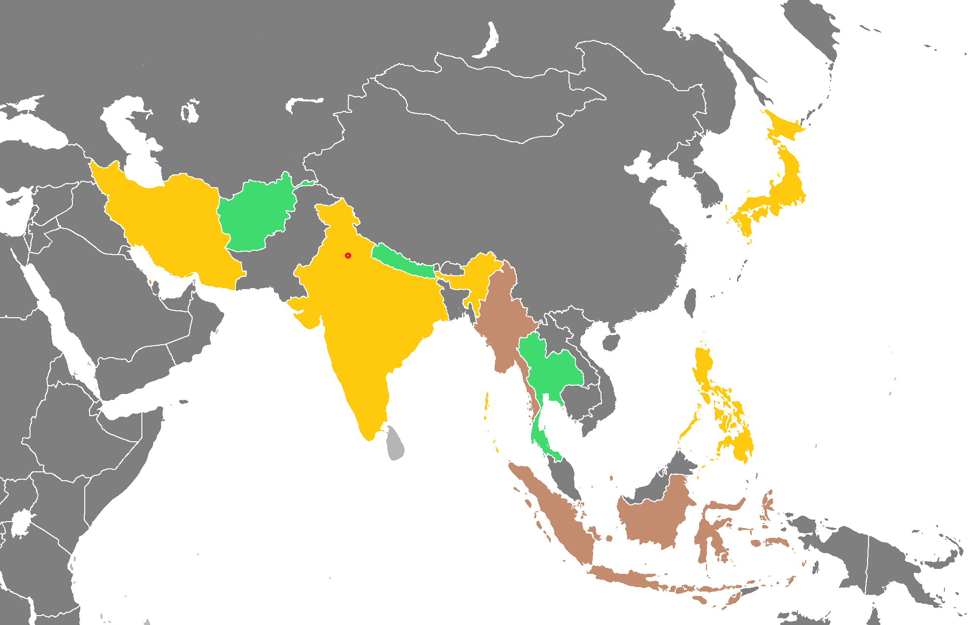 Gold for countries achieving at least one gold medal.Silver for countries achieving at least one silver medal.Bronze for countries achieving at least one bronze medal.Green for countries that did not get any medal.Gray for countries that are either not part of the Olympic Council of Asia or didn't participate in the Games.A red circle displays the host city (Delhi) Note: Geographical borders of different countries might not be according to the 1950s time period, because at that time international boundaries were not stable.